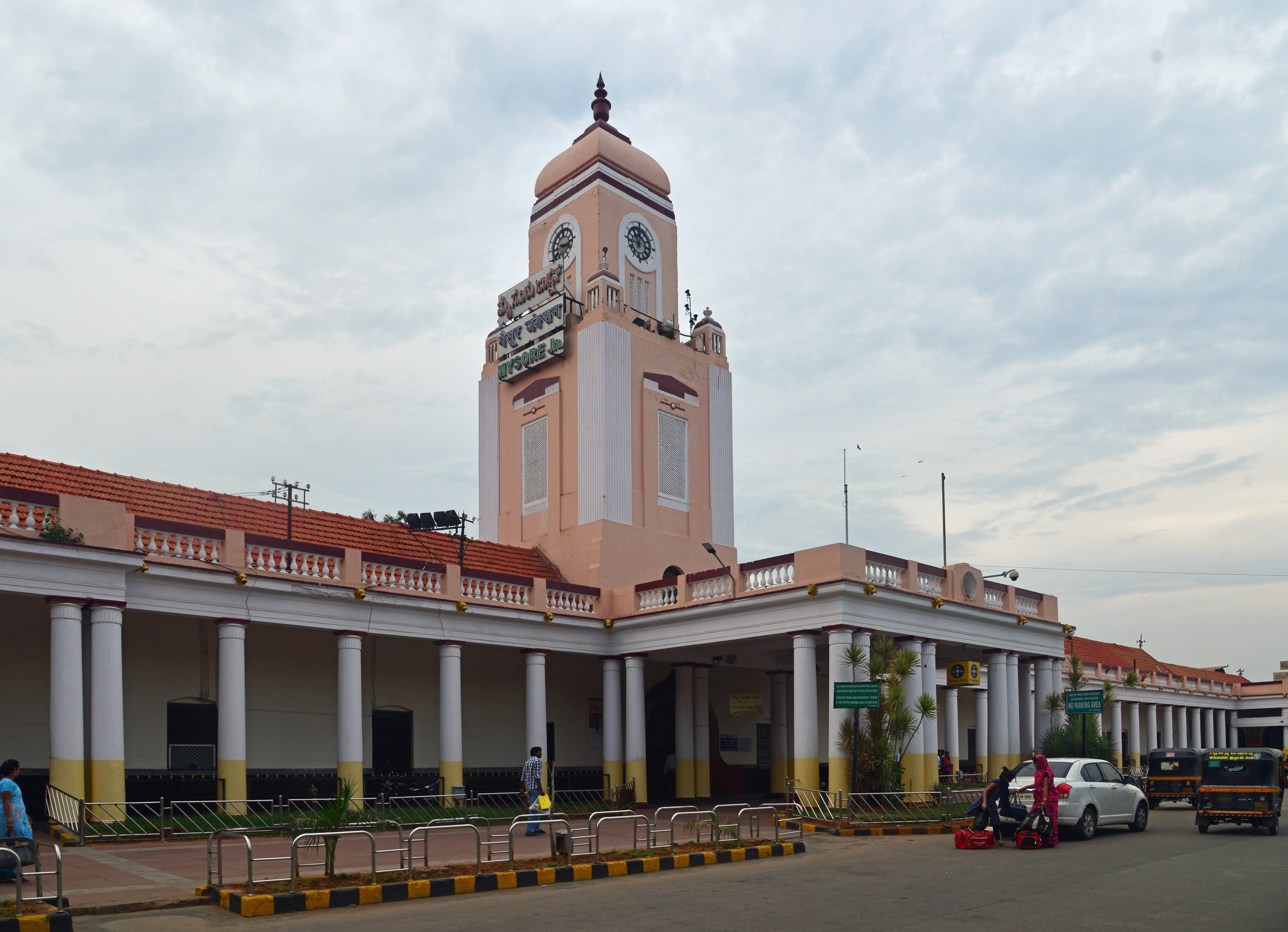 Mysore Junction railway station